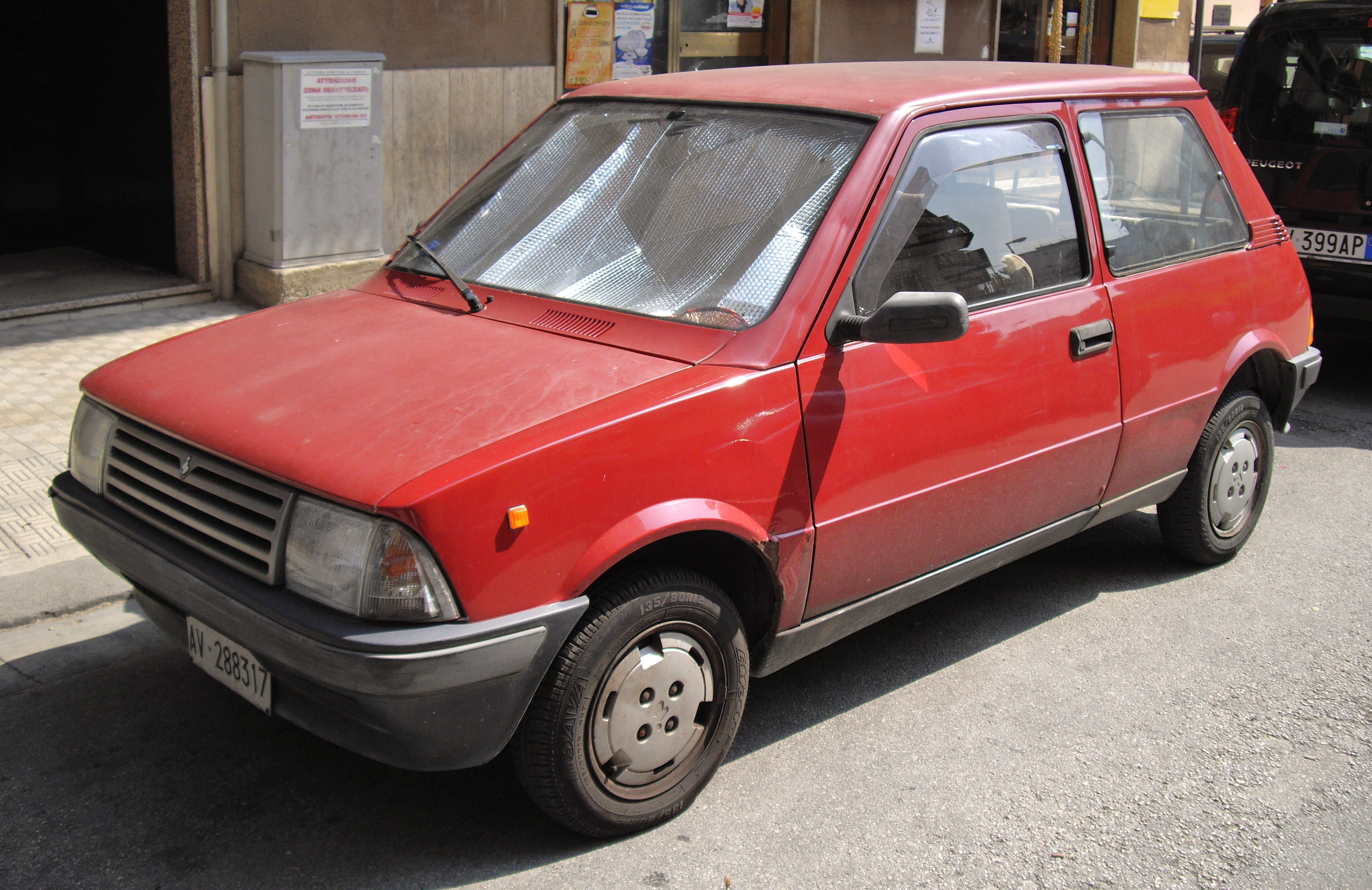 Innocenti Small